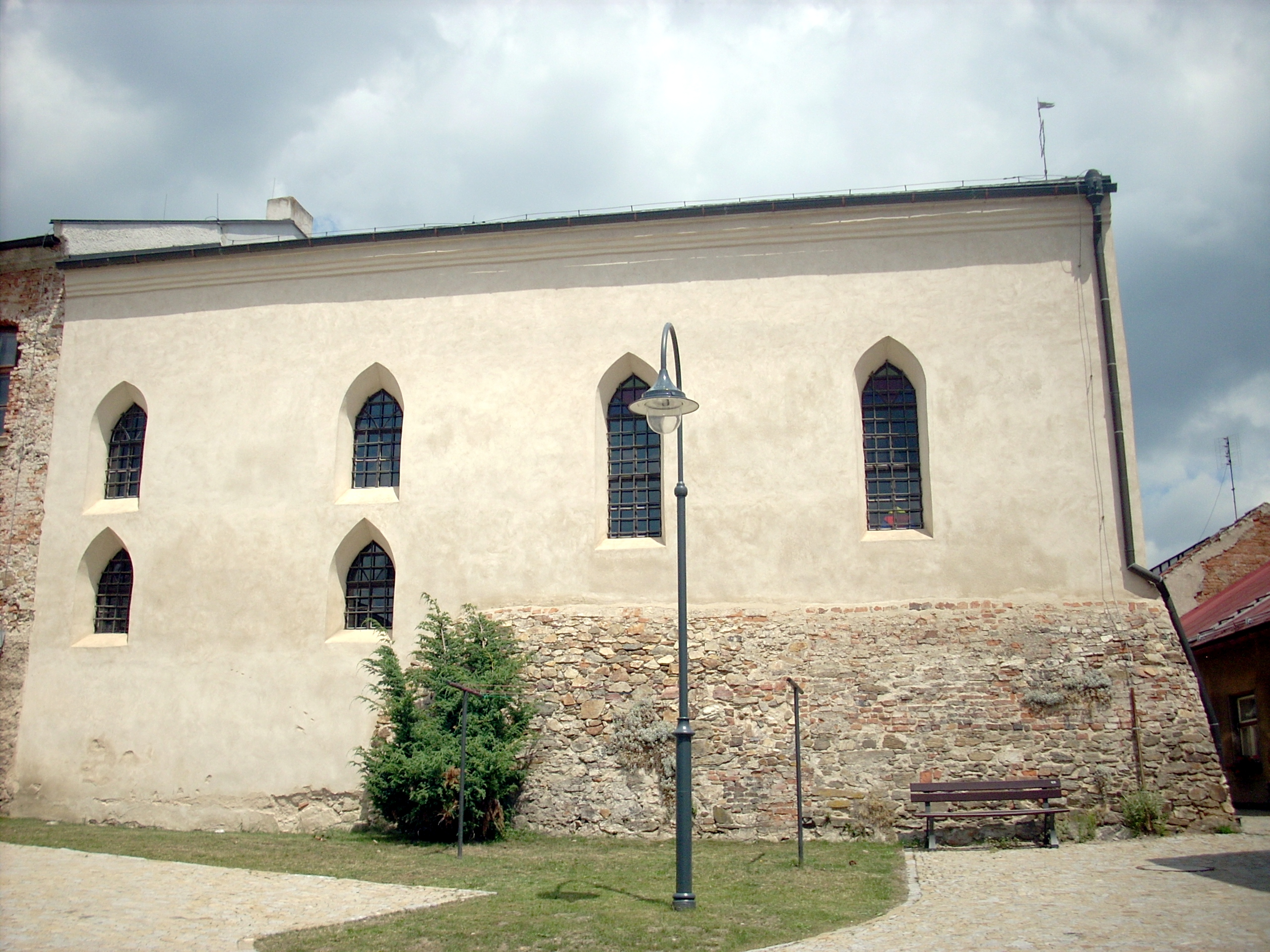 Polná, Charles square - Synagogue